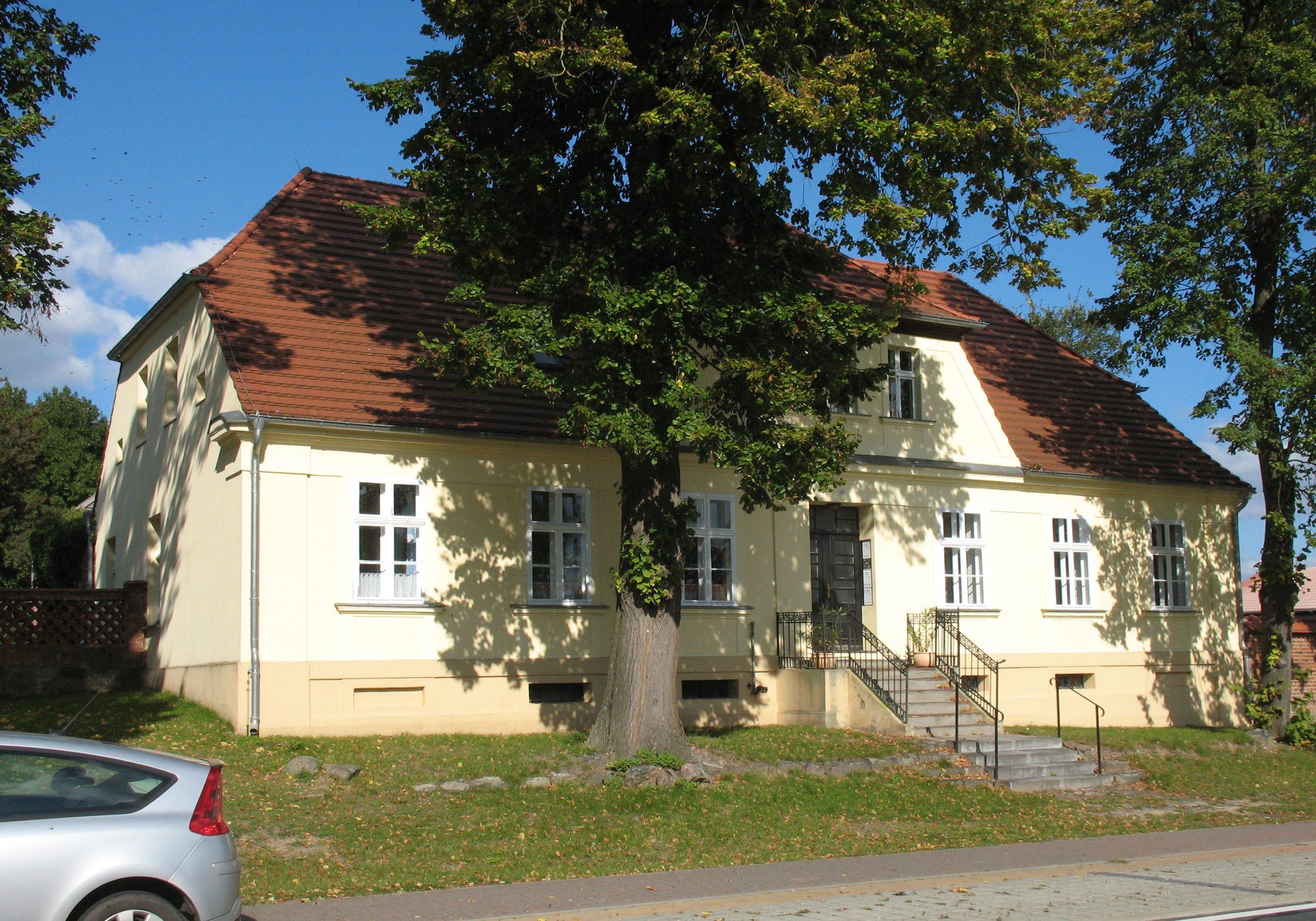 Rectory in Fehrbellin-Langen in Brandenburg, Germany